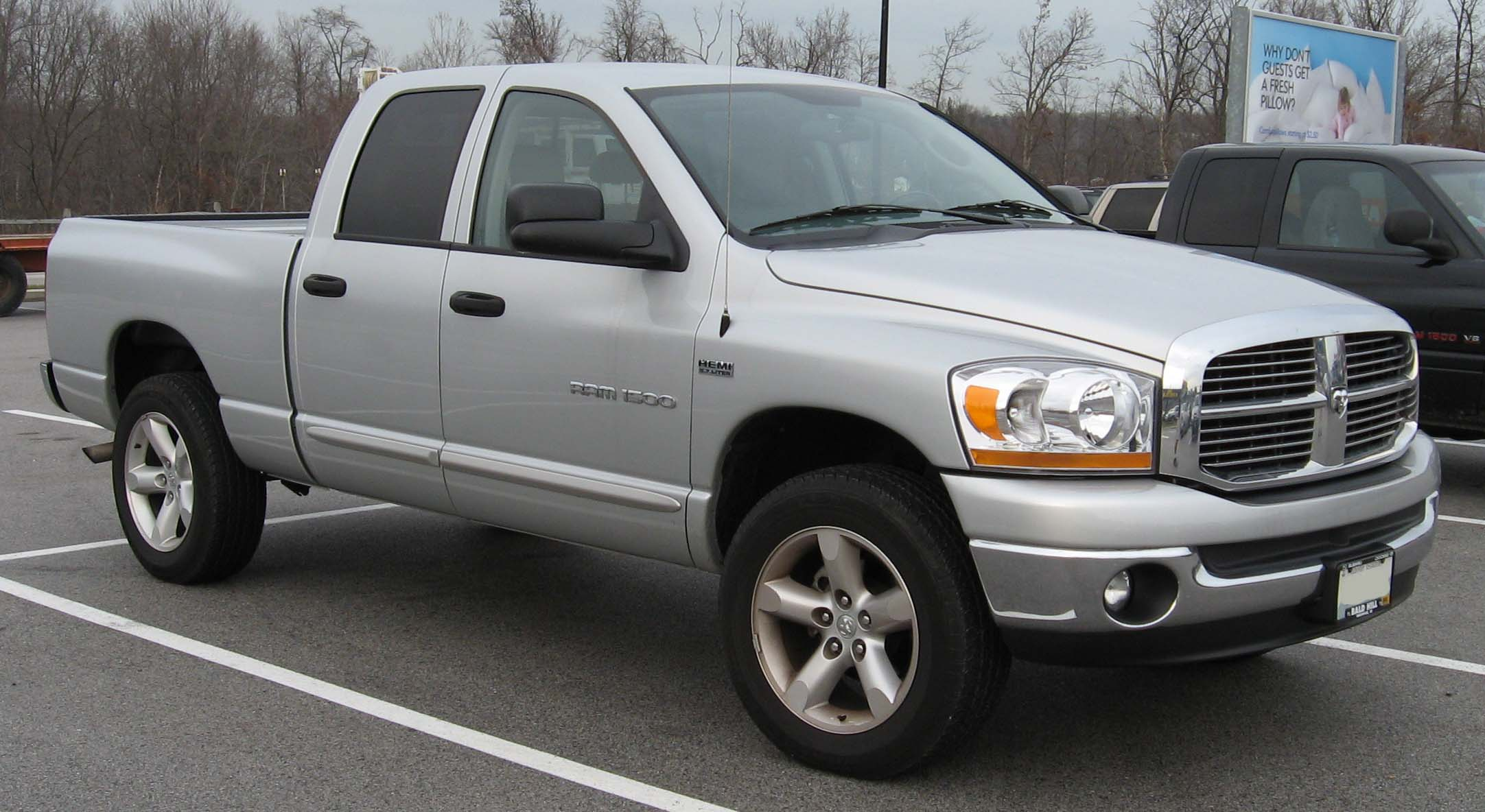 2006-2007 Dodge Ram photographed in USA.